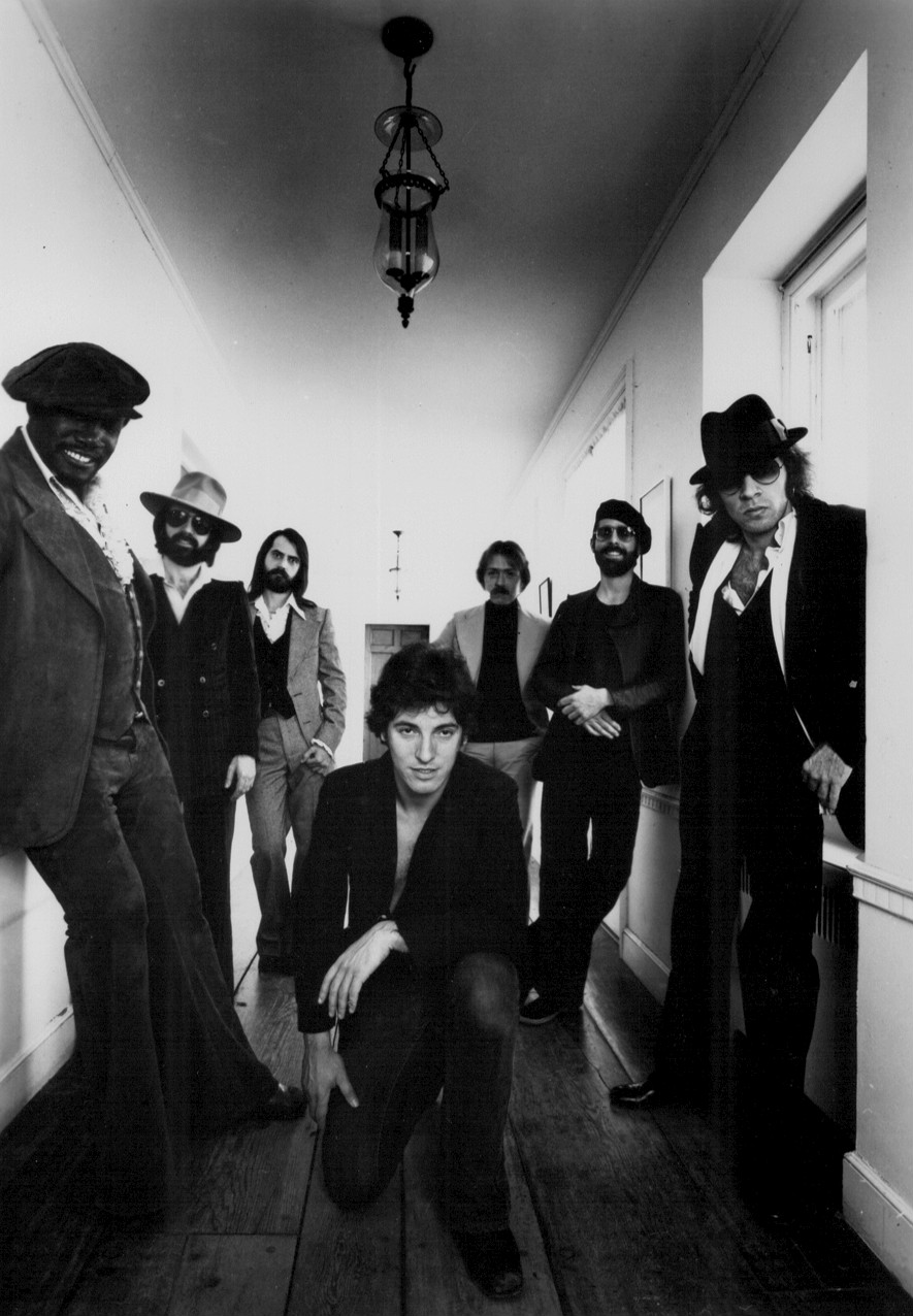 Photo of Bruce Springsteen and the E Street Band. The item has no copyright markings on it as can be seen in the links above.